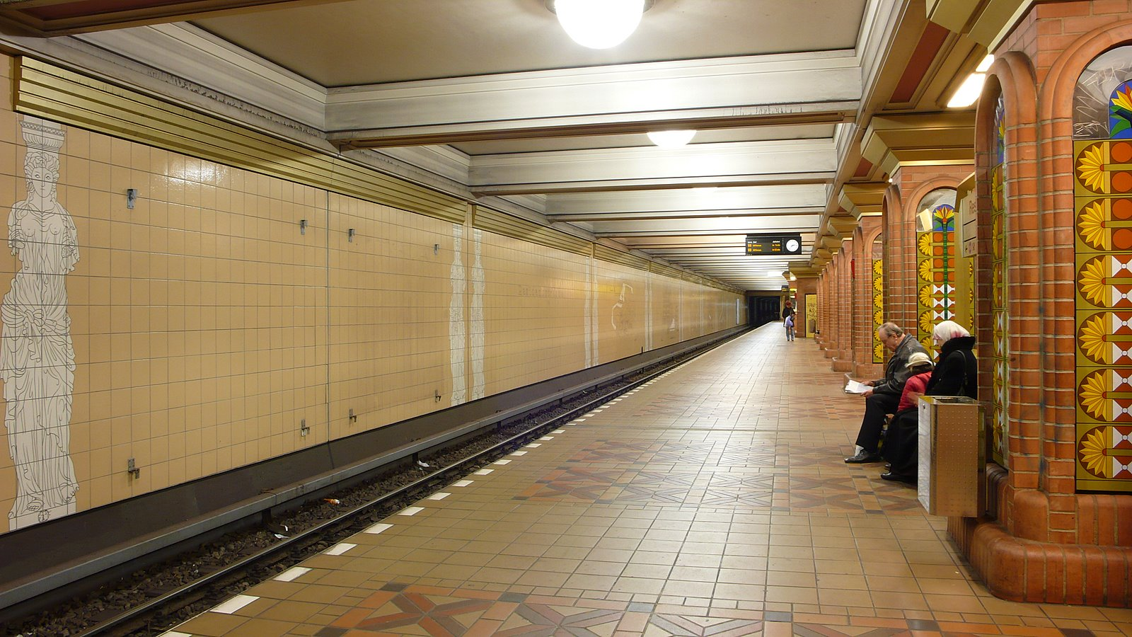 Residenzstr subway